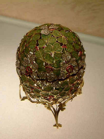 Faberge Egg.. Worth a small fortune (Or maybe even a large one !)